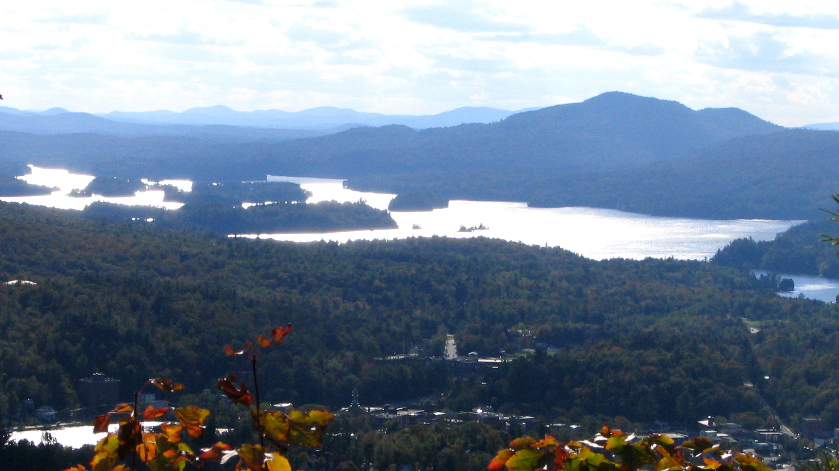 Saranac Lake from Baker Mountain. Taken by User:Mwanner, 26 September, 2006. Brad Emerson Is the man